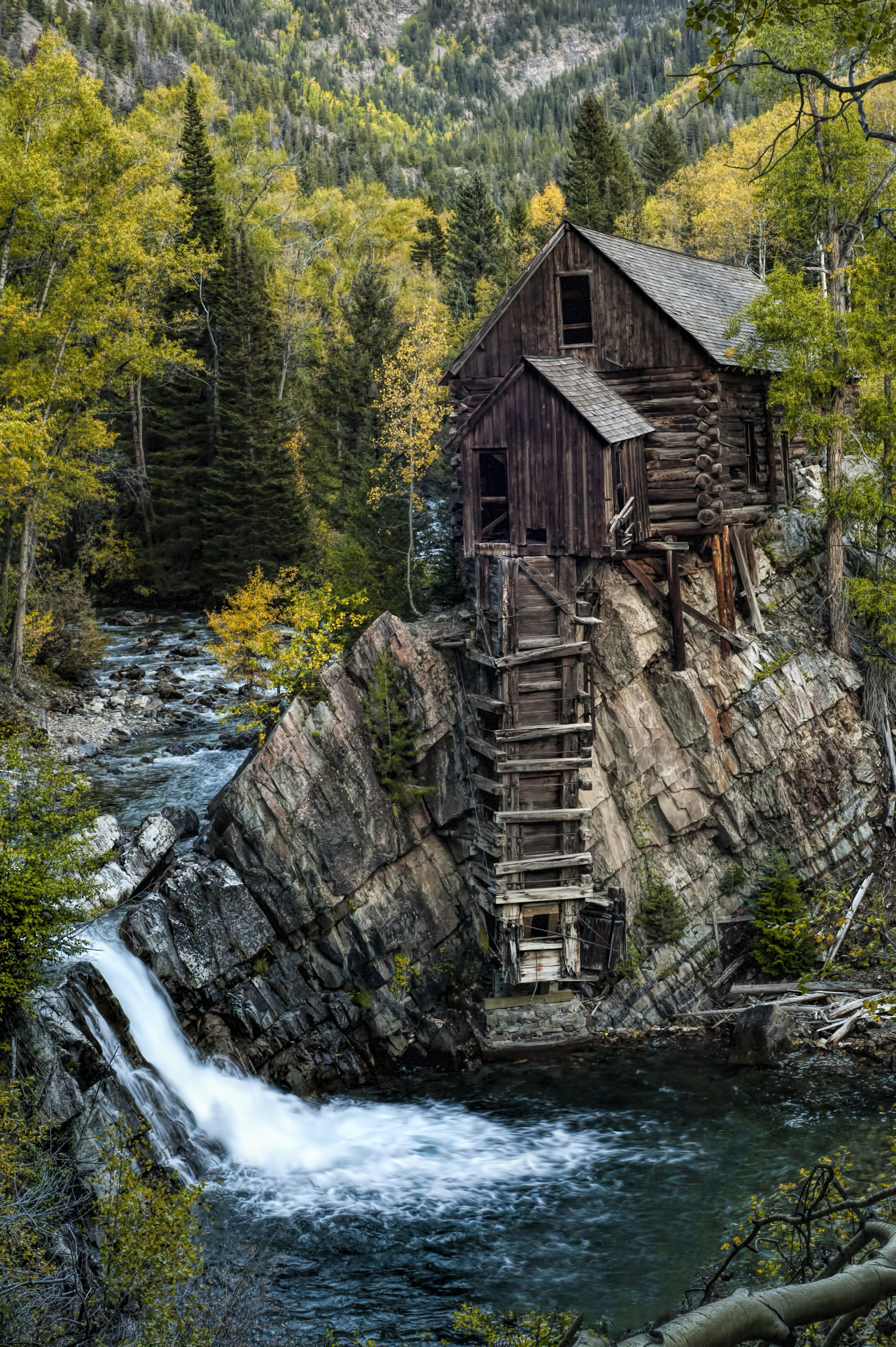 The old Crystal Mill power plant in Crystal, Colorado, United States